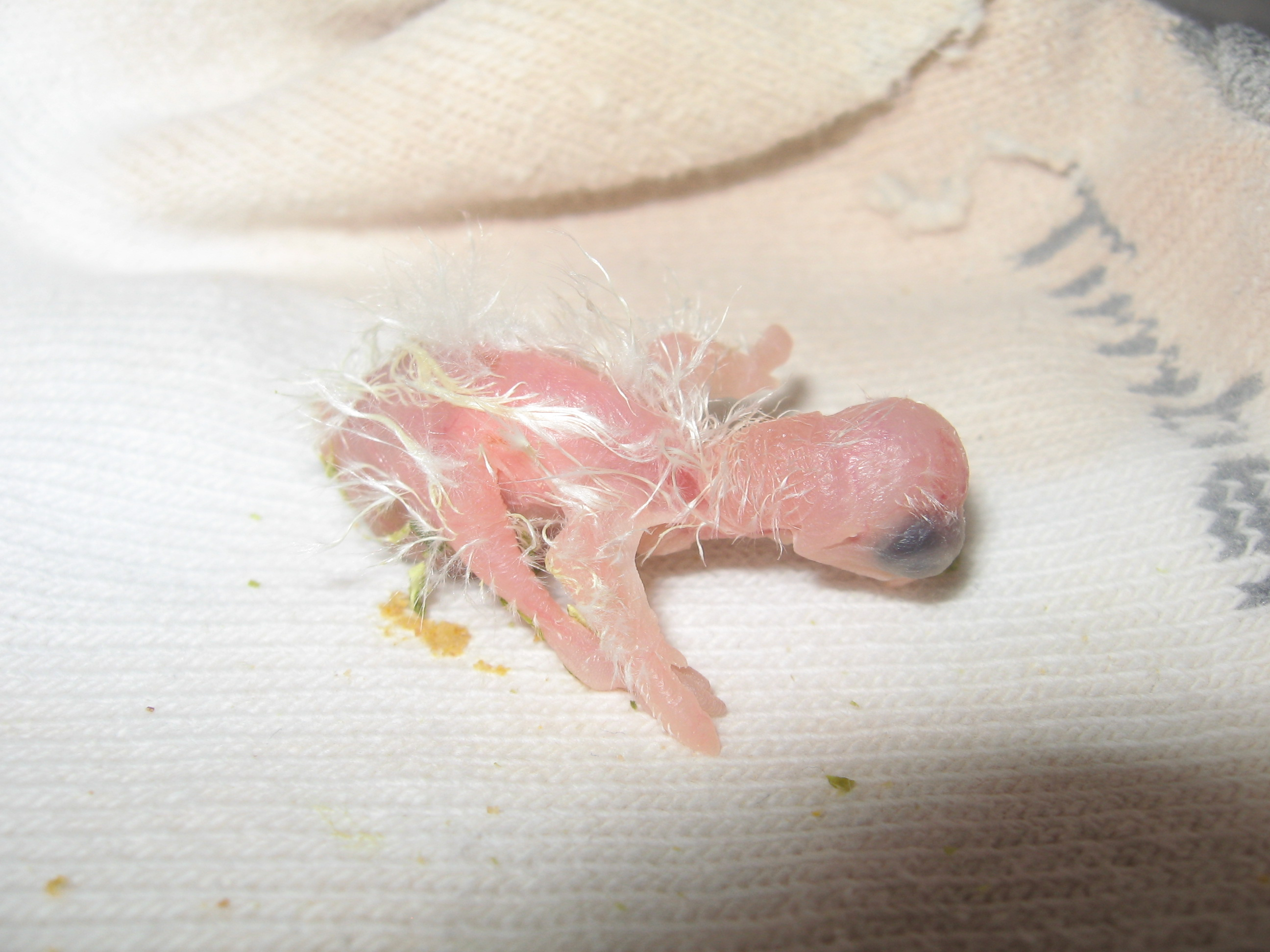 Another picture of my little baby Snowy